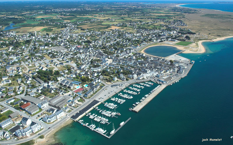 Etel own work 27/06/2006 Jack Mamelet